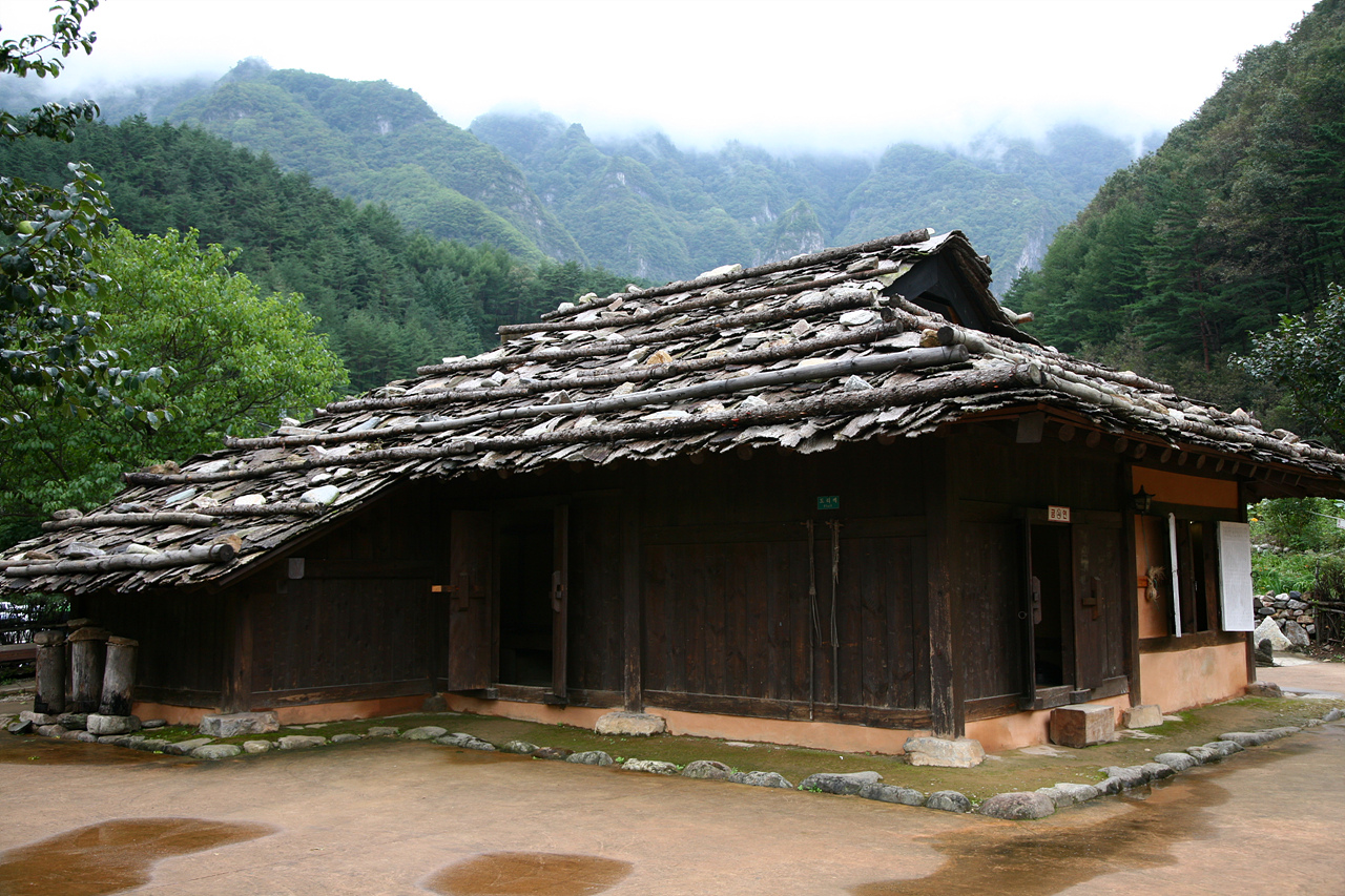 A traditional Korean house in Samcheok, Gangwon-do (Gangwon province), South Korea.